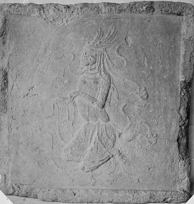 Tile with tennin design, Okadera, Asuka, Nara, Japan; kept at Kyoto National Museum